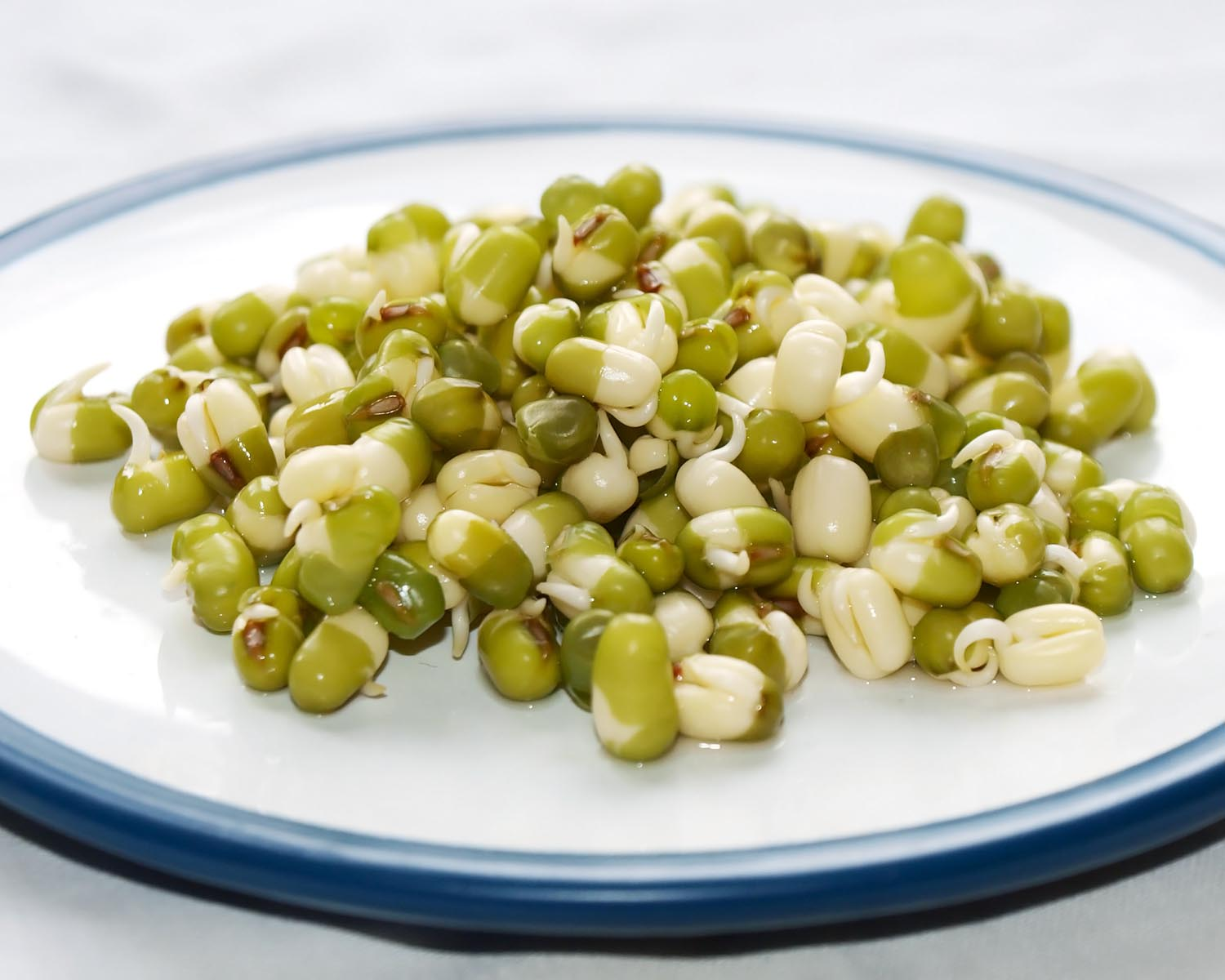 Mung beans sprouted